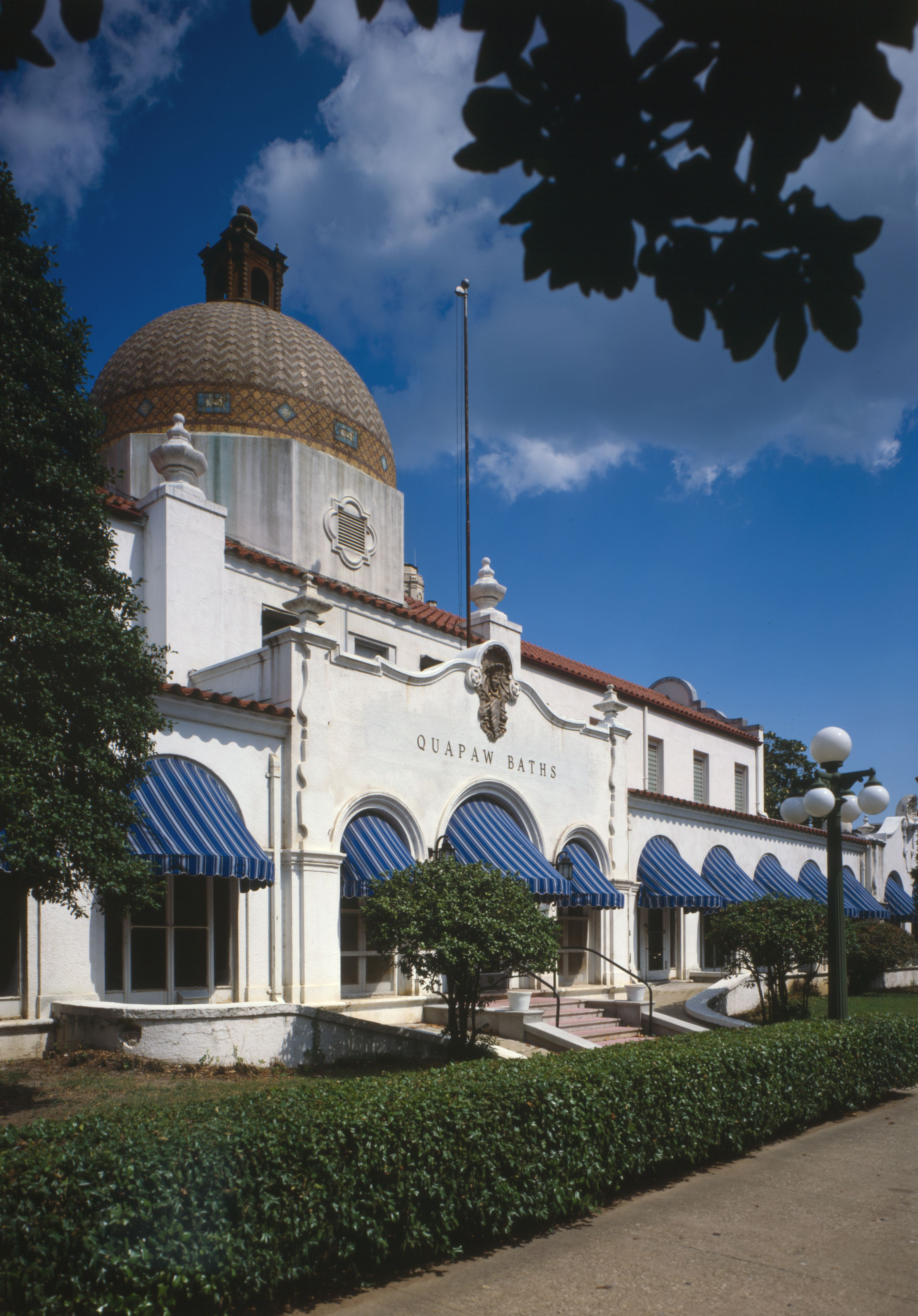 WEST FRONT, FROM NORTHWEST — Detail of Quapaw Baths, Bathhouse Row, in Arkansas. Historic American Buildings Survey—HABS image - by Jack E. Boucher, 1984.